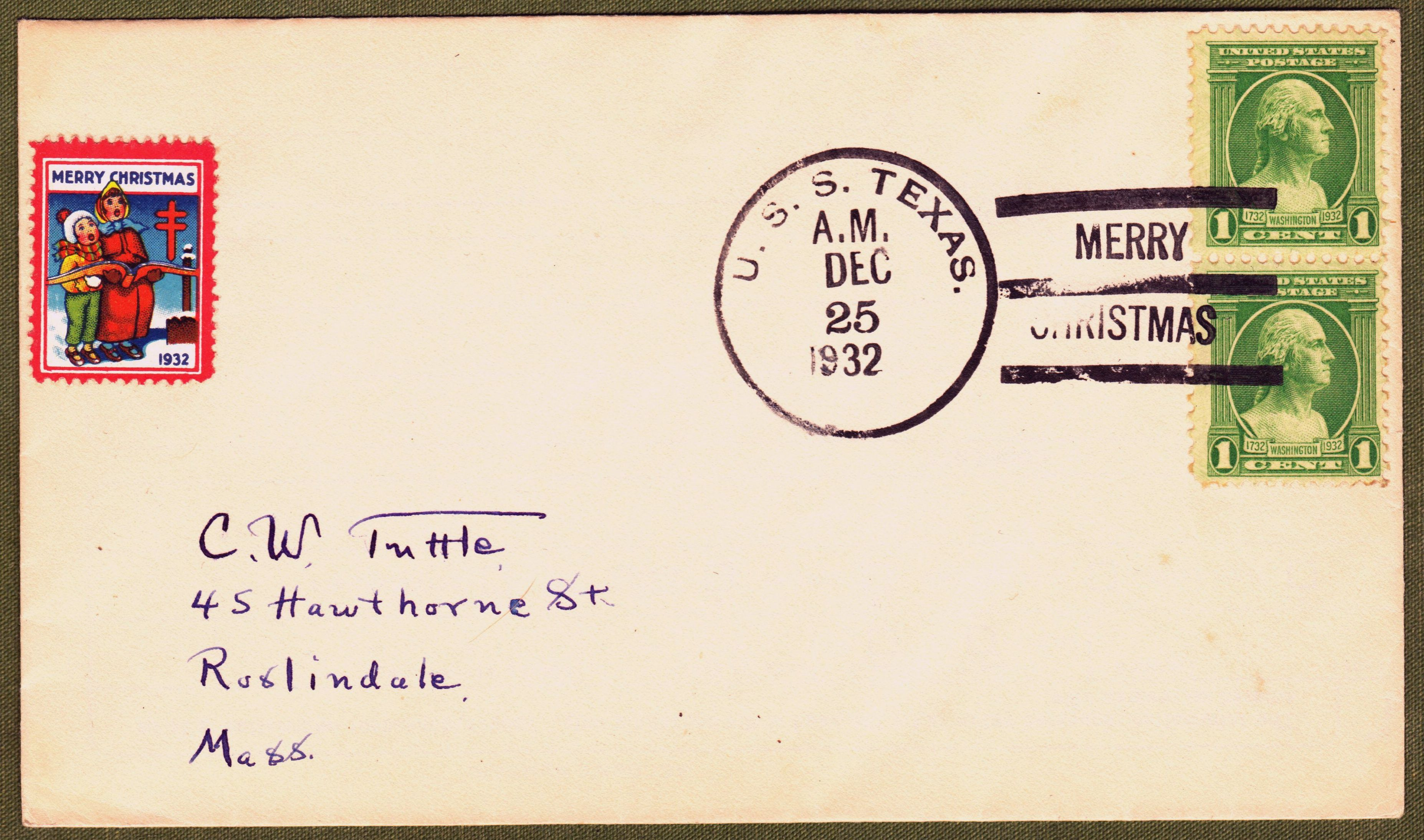 Postal cover from the USS Texas